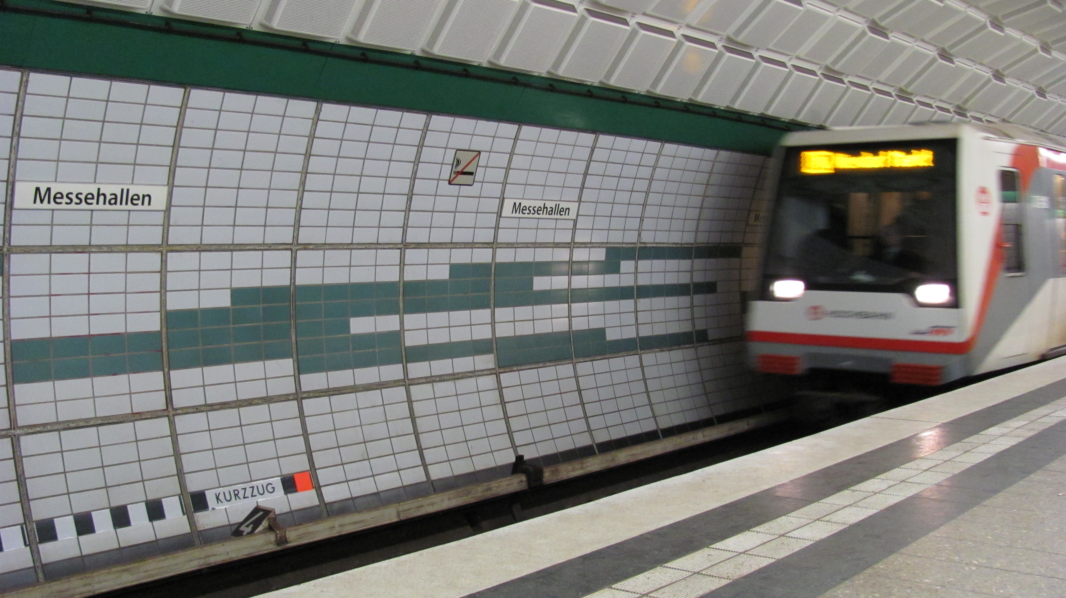 A subway train of the DT4 series servicing the U2 line in the direction of Niendorf arriving at Messehallen station in Hamburg.